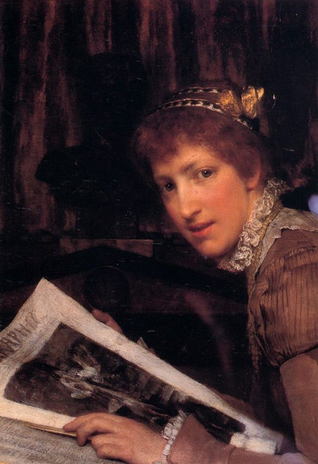 "Interrupted". Lawrence Alma-Tadema (1836 - 1912), depicting Laura Theresa Alma-Tadema